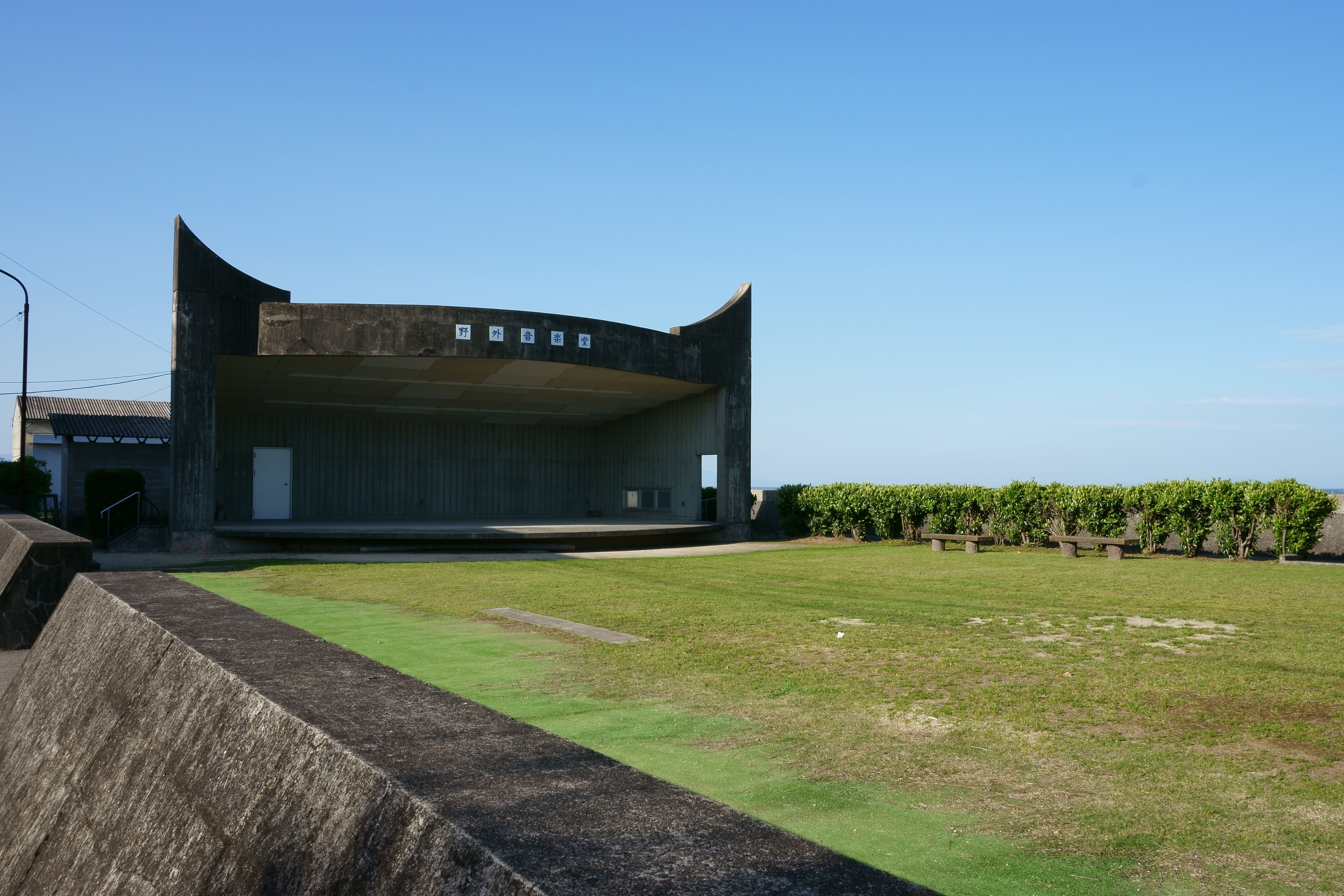 An outdoor concert stage at coast of Tara town, Saga prefecture.